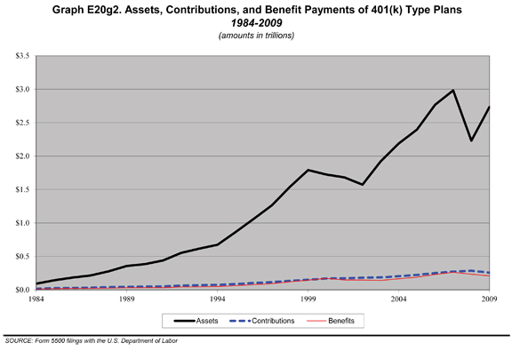 The 401(k) historical chart of assets, benefits and contributions made from 1984 until 2009, based on stats from the U.S. Department of Labor.